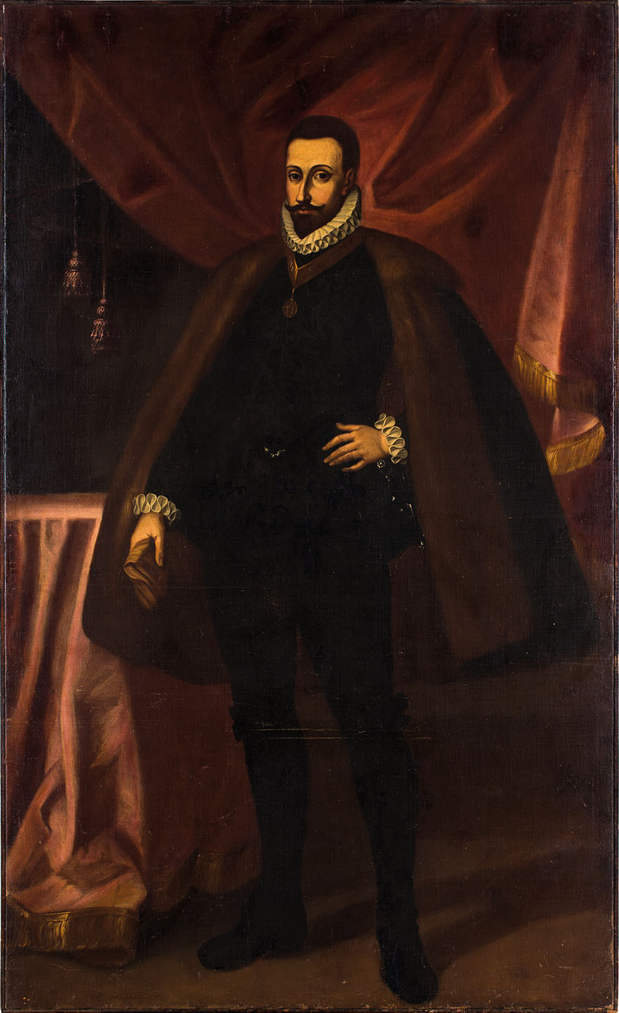 Portrait of Emmanuel Philibert, Duke of Savoy (1528-1580)